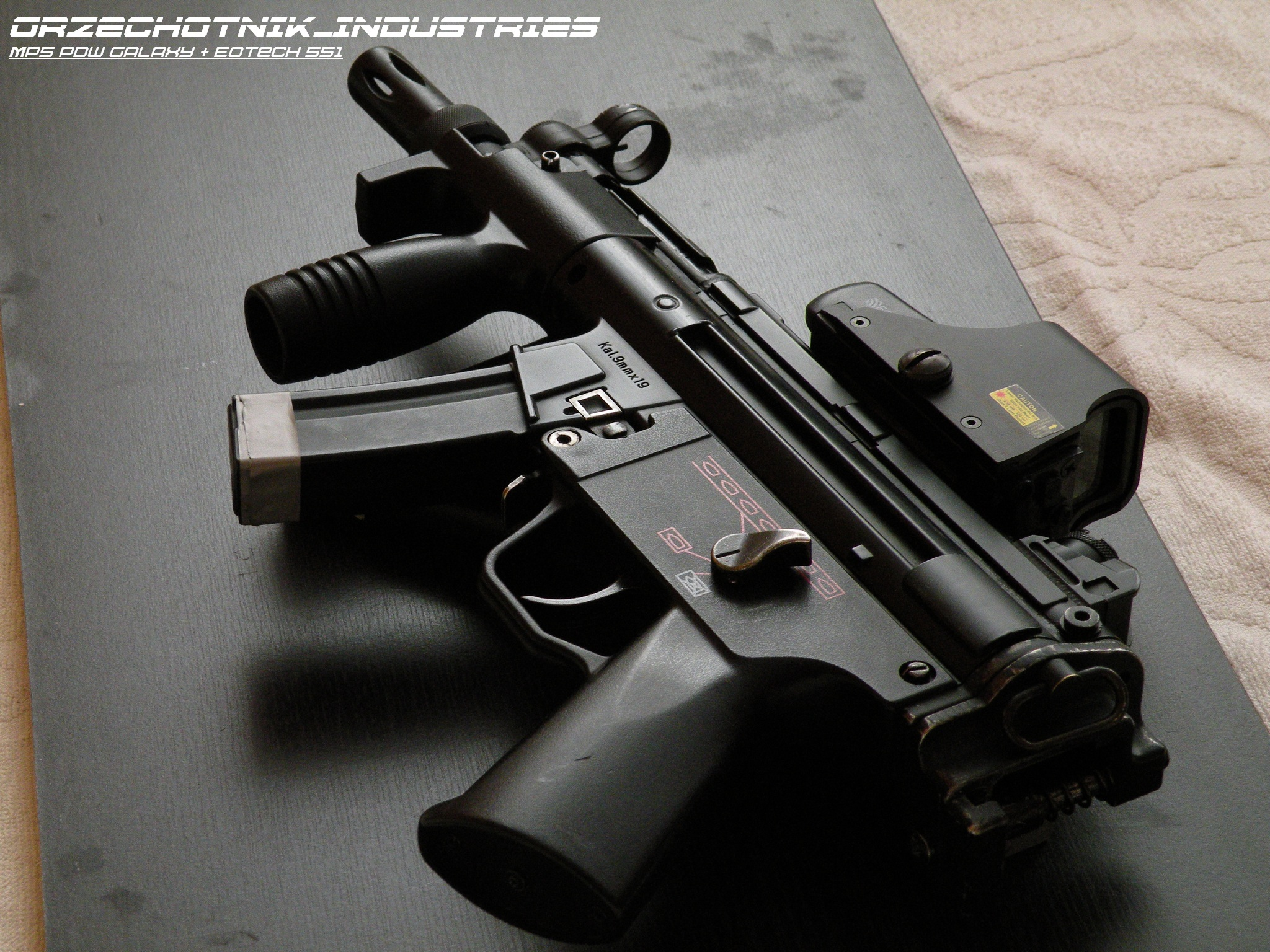 Heckler & Koch MP5 PDW Galaxy w/ Eotech 551